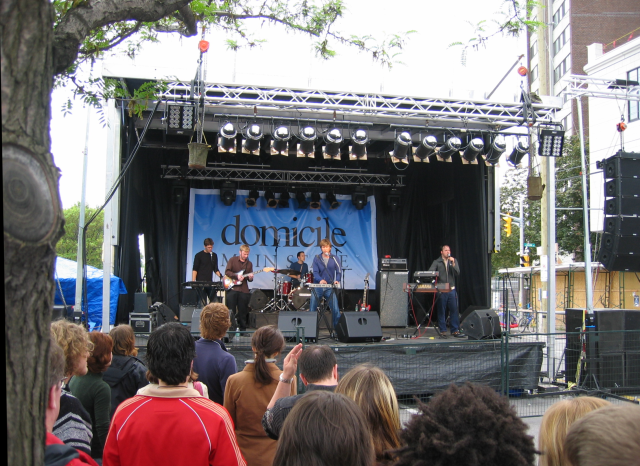 Hilowtrons performing at Ottawa Westfest 2006